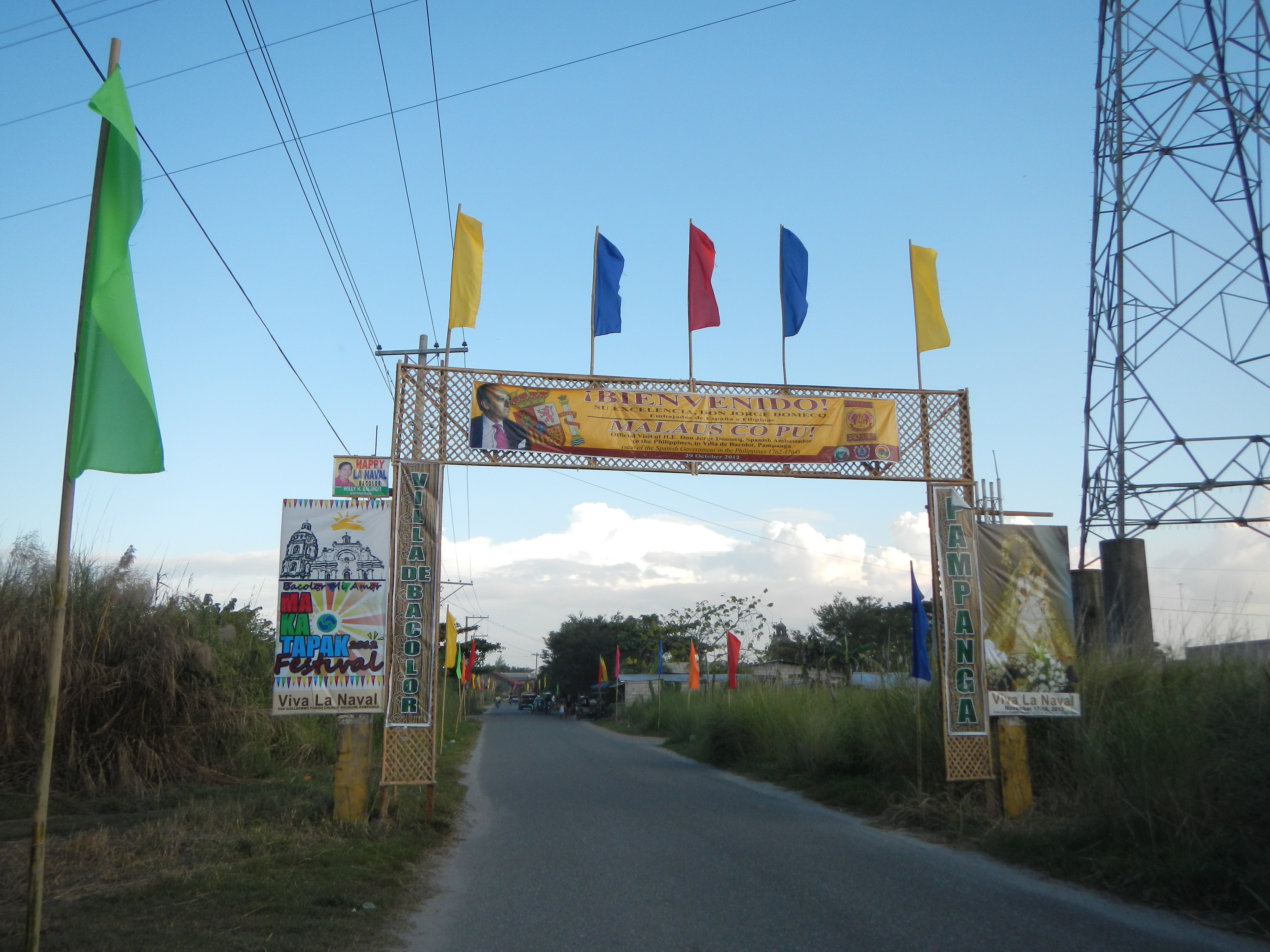 Bacolor, Pampanga[1]